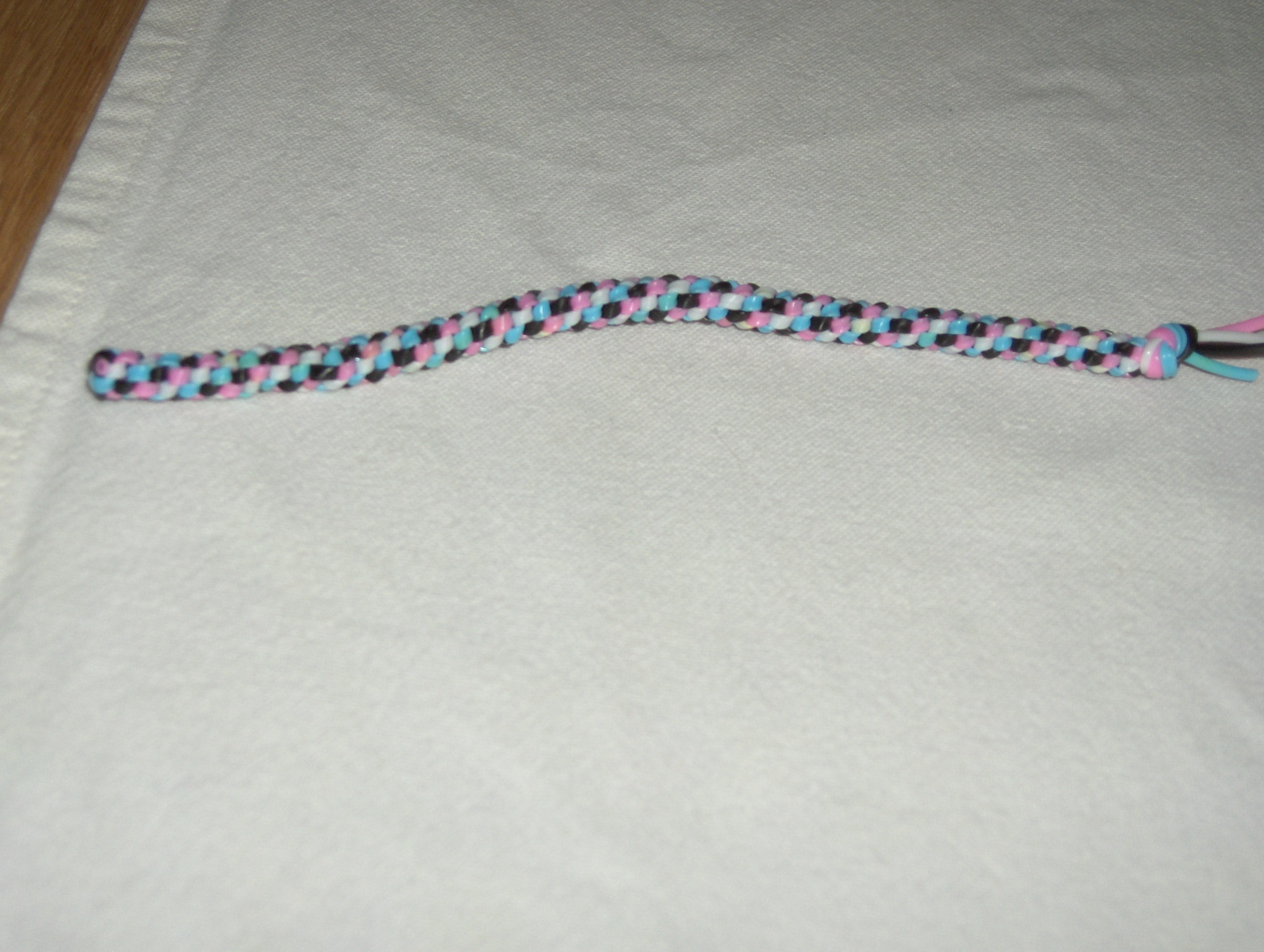 Scoubidouknot with a rose, black, blue and white cord